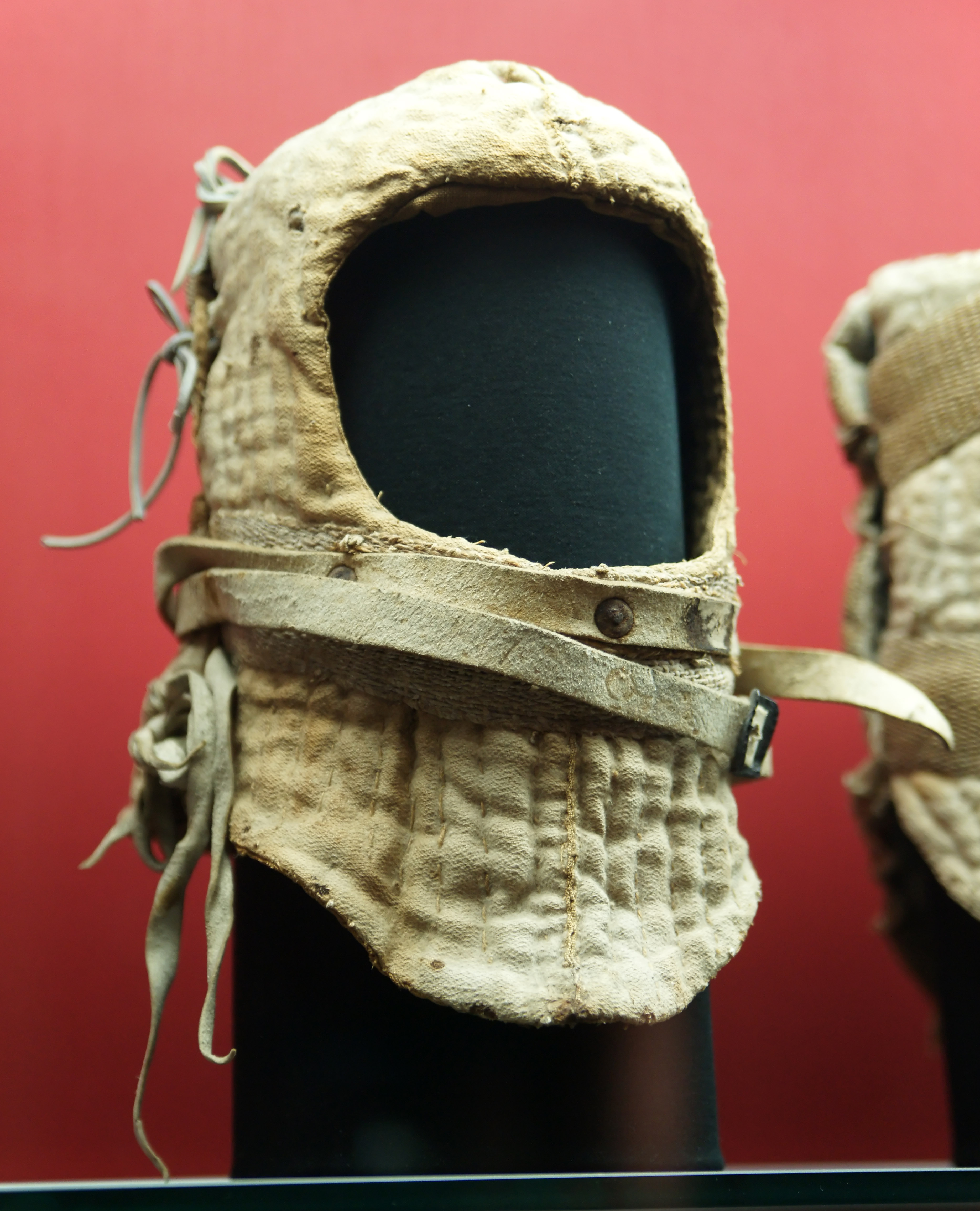 Fiber-filled linen padding of a tournament helmet.